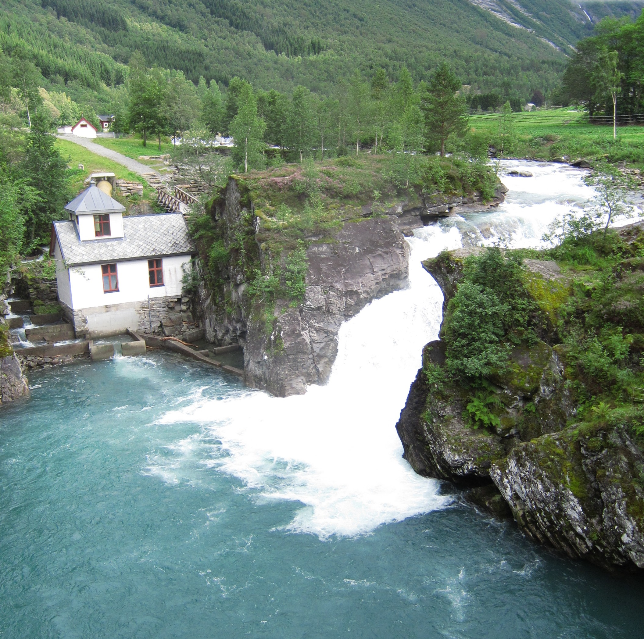 Hol waterfall, power stasjon and fish ladder seen from Holsbrua (Hol bridge)